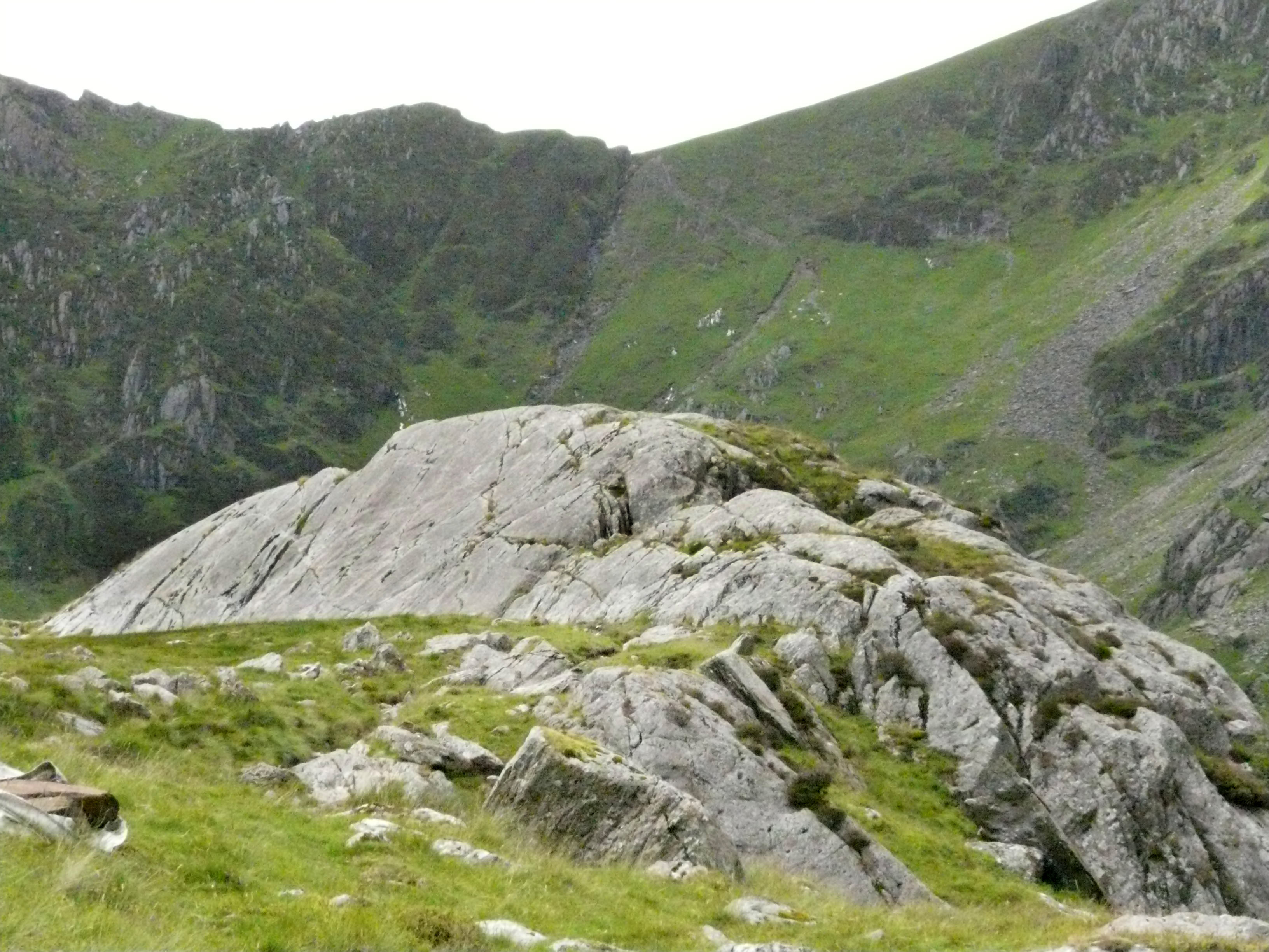 A roche moutonnée in the Cadair Idris valley, Snowdonia, Wales. A product of glacial erosion.